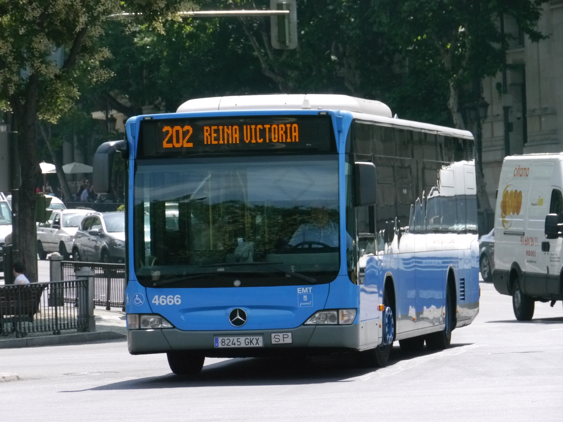 Cibeles.